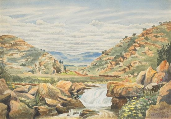 "On The Road To Pretoria" - Watercolour by Charles Theophilus Hahn (1870-1930)